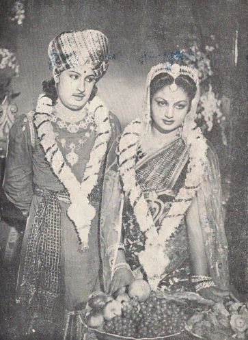 M. G. Ramachandran (1917 – 1987), Tamil actor, politician and V. N. Janaki (1923 - 1996), an actress and politician (in 1948 Tamil film Mohini)